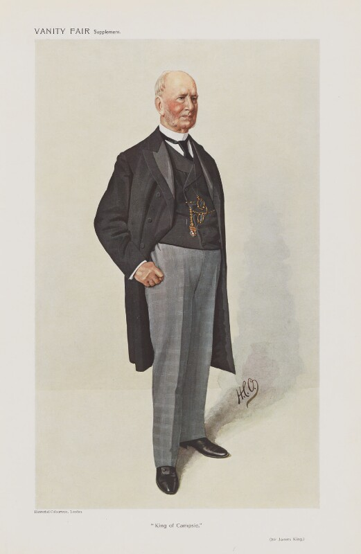 Men of the Day No.1242: Caricature of Sir J King Bt. Laird of Campsie and Carstairs. Caption reads: "King of Campsie"